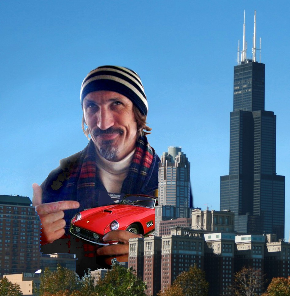 "The garage man" - Photomontage to Ferris Bueller's Day Off